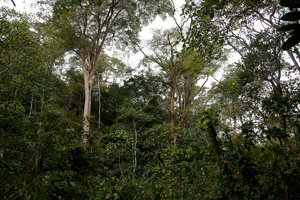 Trees in Moribane Forest Reserve. The best-preserved parts of the forest are dominated by Newtonia buchananii. The marshy depressions are full of Apocynaceae, including Funtumia africana, both Voacanga africana and V. thouarsii, Tabernaemontana ventricosa and various lianes like Saba comorensis, Dictyophleba lucida, Strophanthus courmontii and Landolphia.